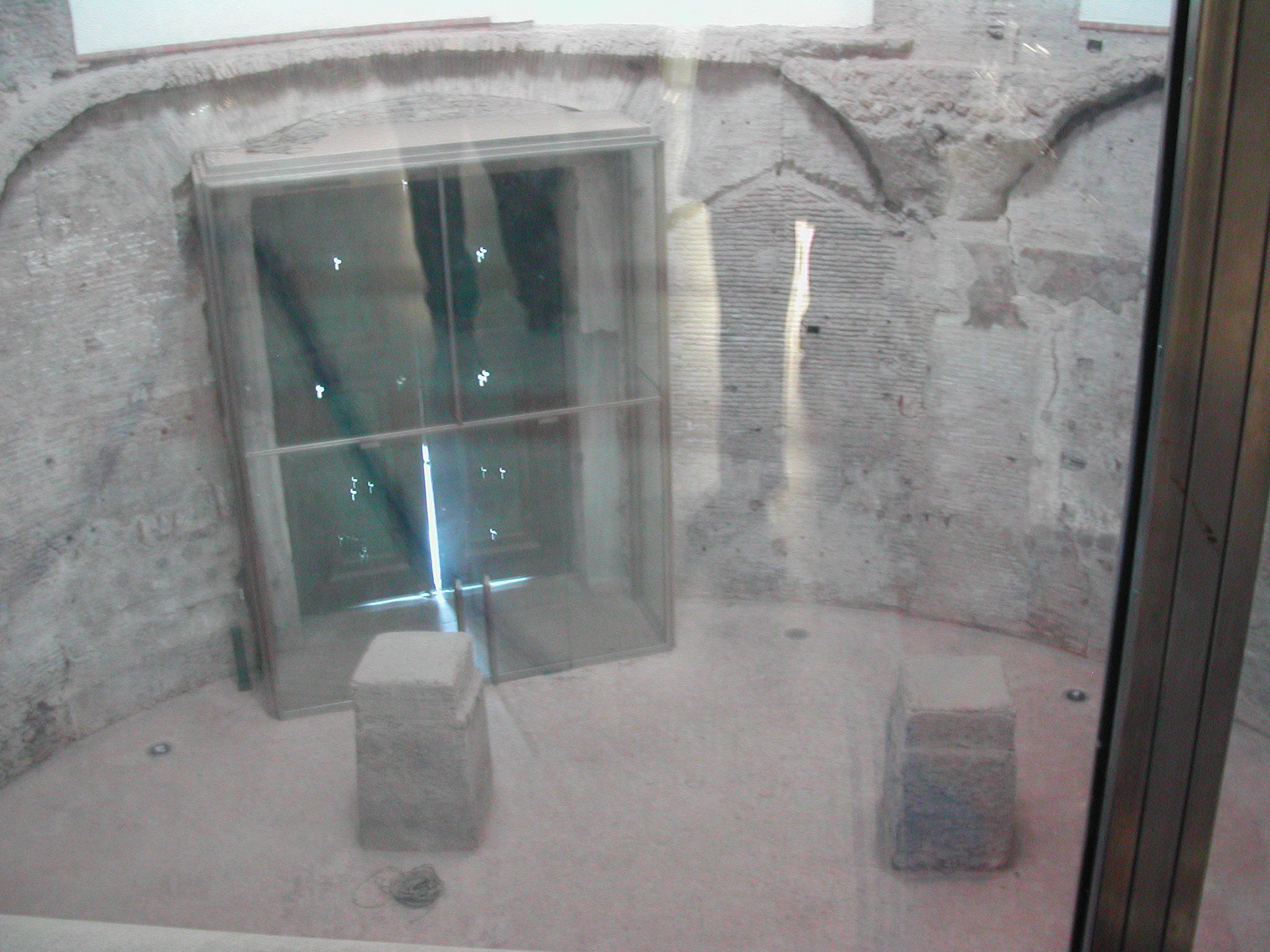 Rome Basilica of Saints Cosmas and Damian, the temple of Romulus built in the basilica, seen from the inside by Lalupa